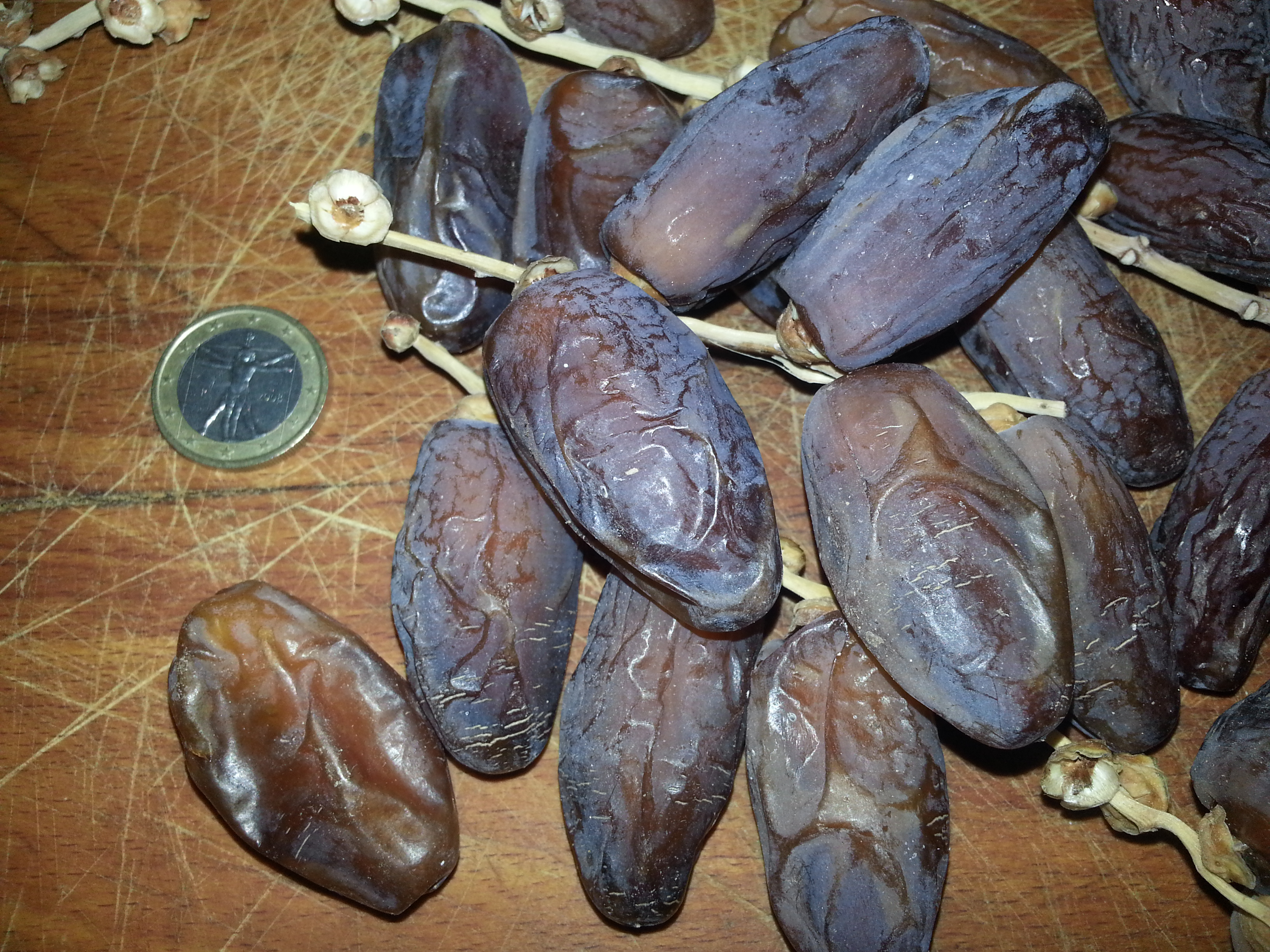 dates